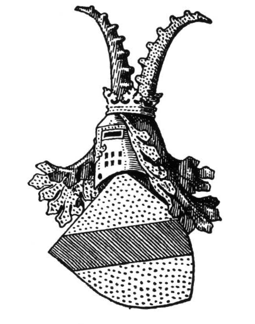 Wappen Badens / coat of arms of Baden - Frederick III, Margrave of Baden